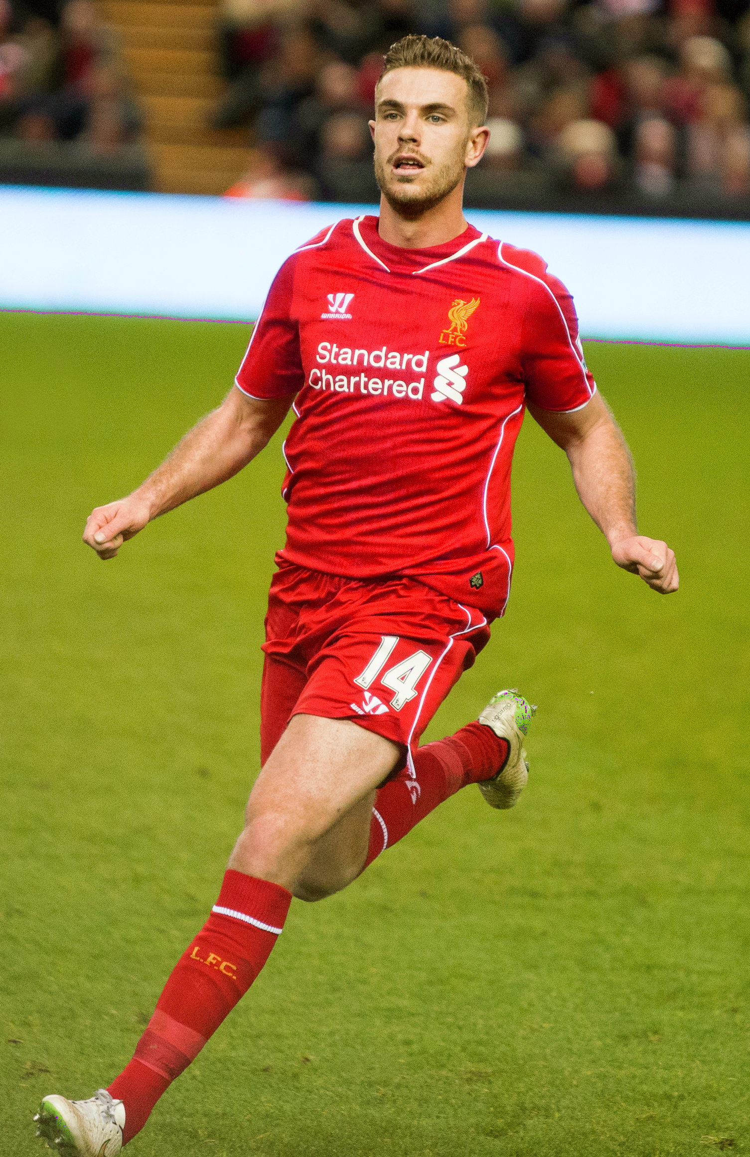 Jordan Henderson playing for Liverpool F.C. in a Premier League match against Arsenal at Anfield on 21 December 2014.